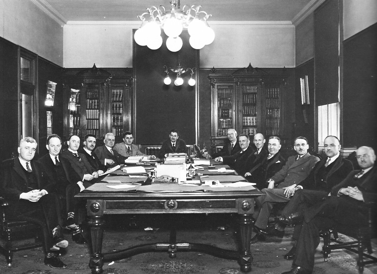 The first Maurice Duplessis government (Quebec) in 1936. From left to right: Antonio Élie (minister without portfolio), François Leduc (Roads), Albiny Paquette (Secretary), Bona Dussault (Agriculture), Henry Auger (Colonization), Oscar Drouin (Lands and Forests), Maurice Duplessis (Prime minister; Solicitor General), Martin Fisher (Treasurer), Onésime Gagnon (Mines; Hunting and Fisheries), John Bourque (Public Works), William Tremblay (Labour), Joseph Bilodeau (Municipal Affairs; Industry and Commerce), Thomas Joseph Coonan (without portfolio), Gilbert Layton (without portfolio).